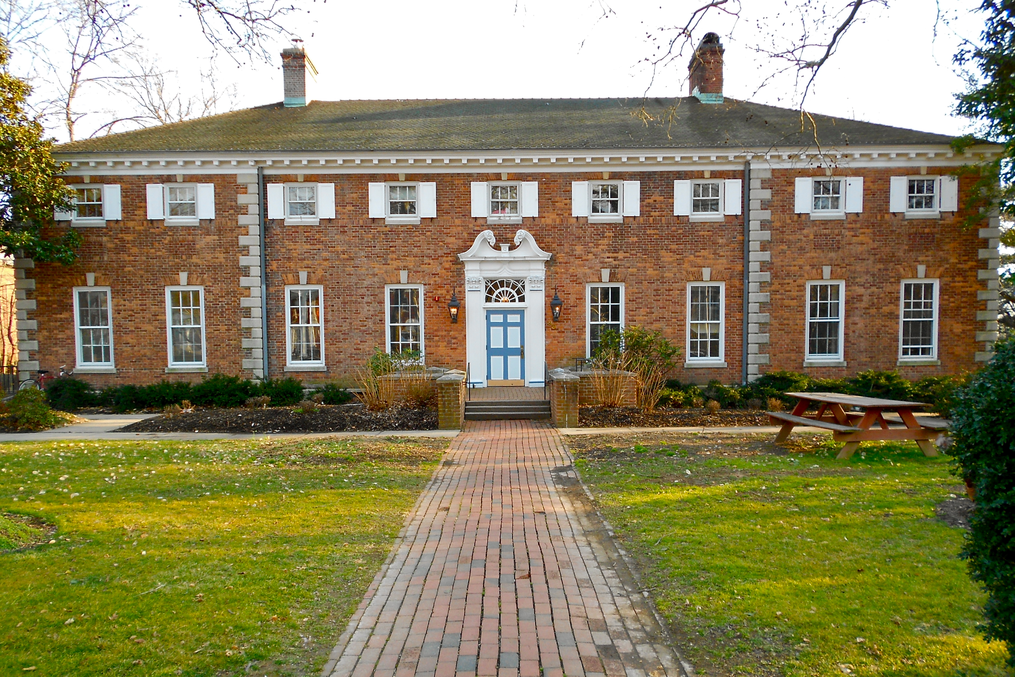 Quadrangle Club operated as Eating Club at Princeton University 1901–present. 33 Prospect Ave This building built 1916. Princeton, New Jersey.